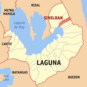 Locator map of Siniloan in Laguna, Philippines.